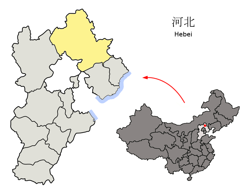 Location of Chengde Prefecture (yellow) within Hebei Province of China 简体